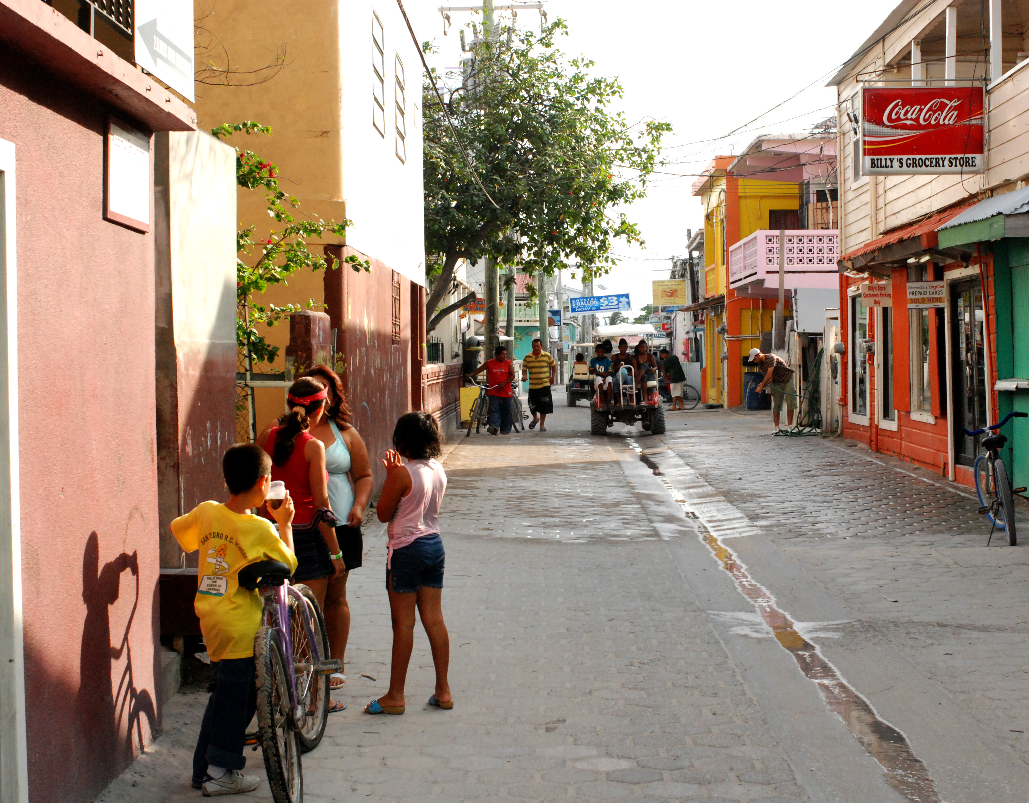 San Pedro, Ambergris Caye, Belize, Central America.